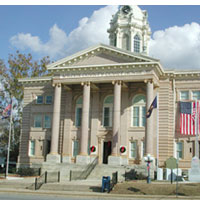 This is a picture of the Wilcox County Courthouse in Abbeville, Georgia.